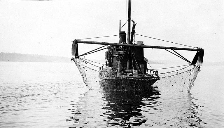 Subjects (LCTGM): Fishing boats; Fishing nets Subjects (LCSH): Purse seining; Fisheries--Equipment and supplies